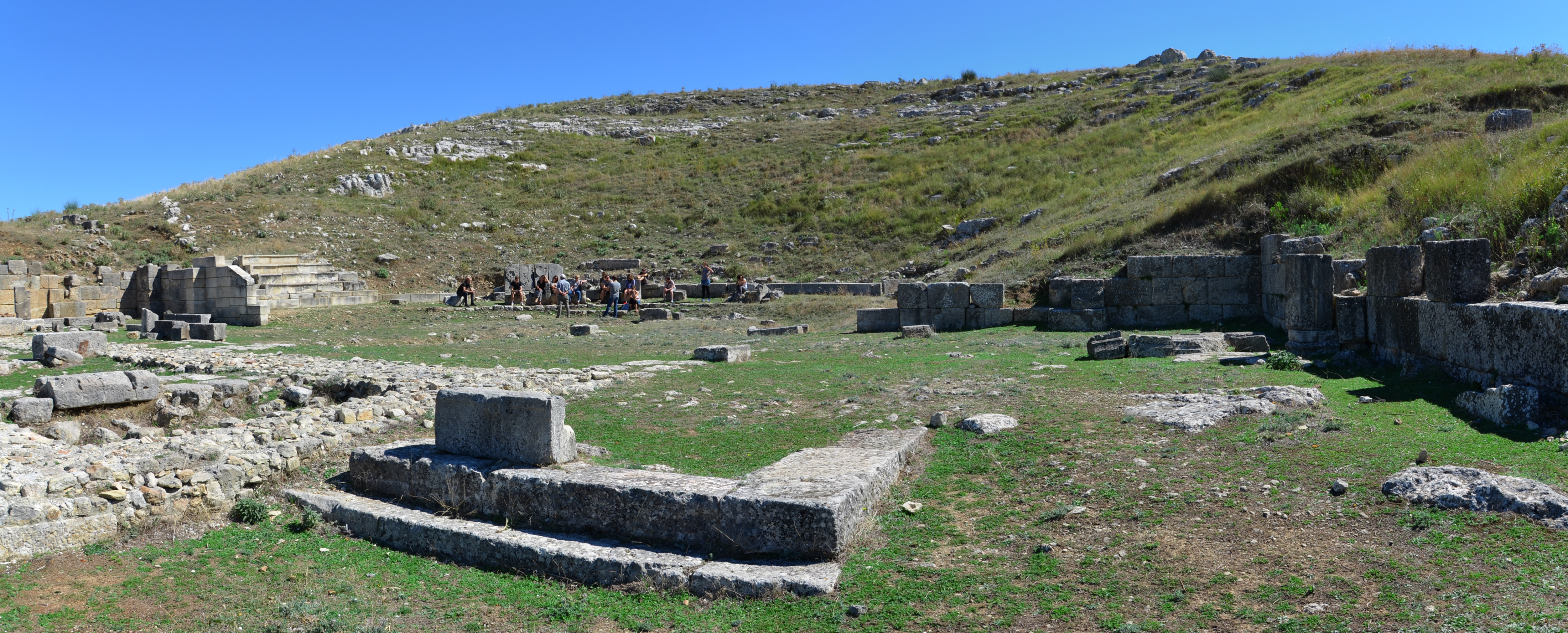 Theatre in Byllis, Albania